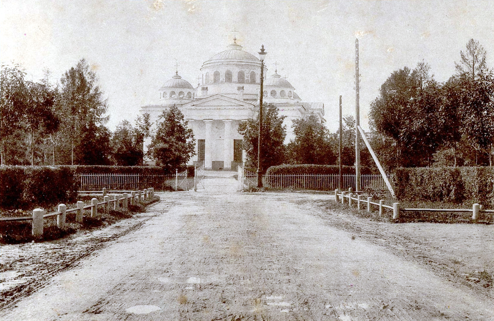 Tsarskoye Selo (Russia)